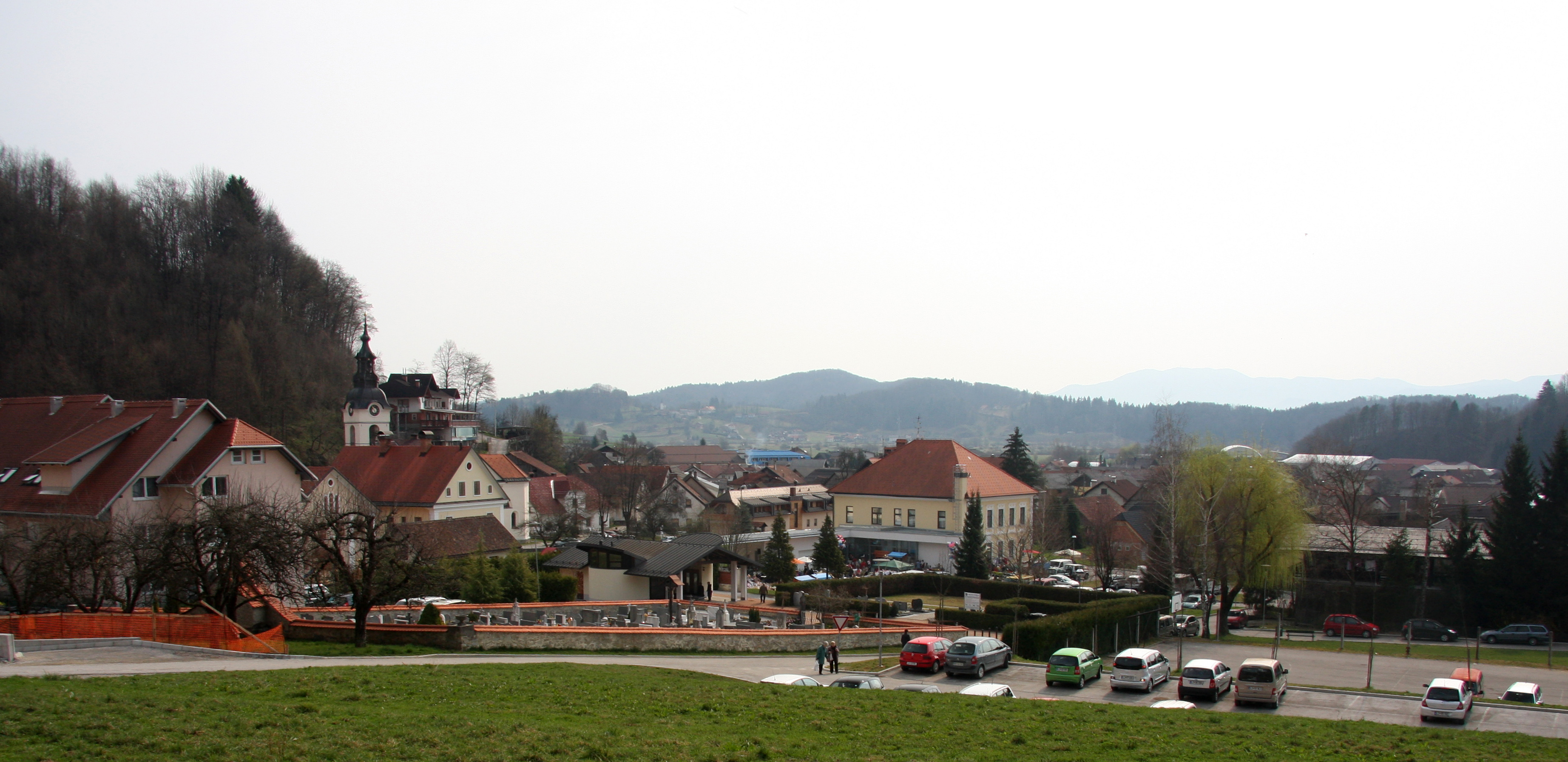 The town Horjul, Slovenia.